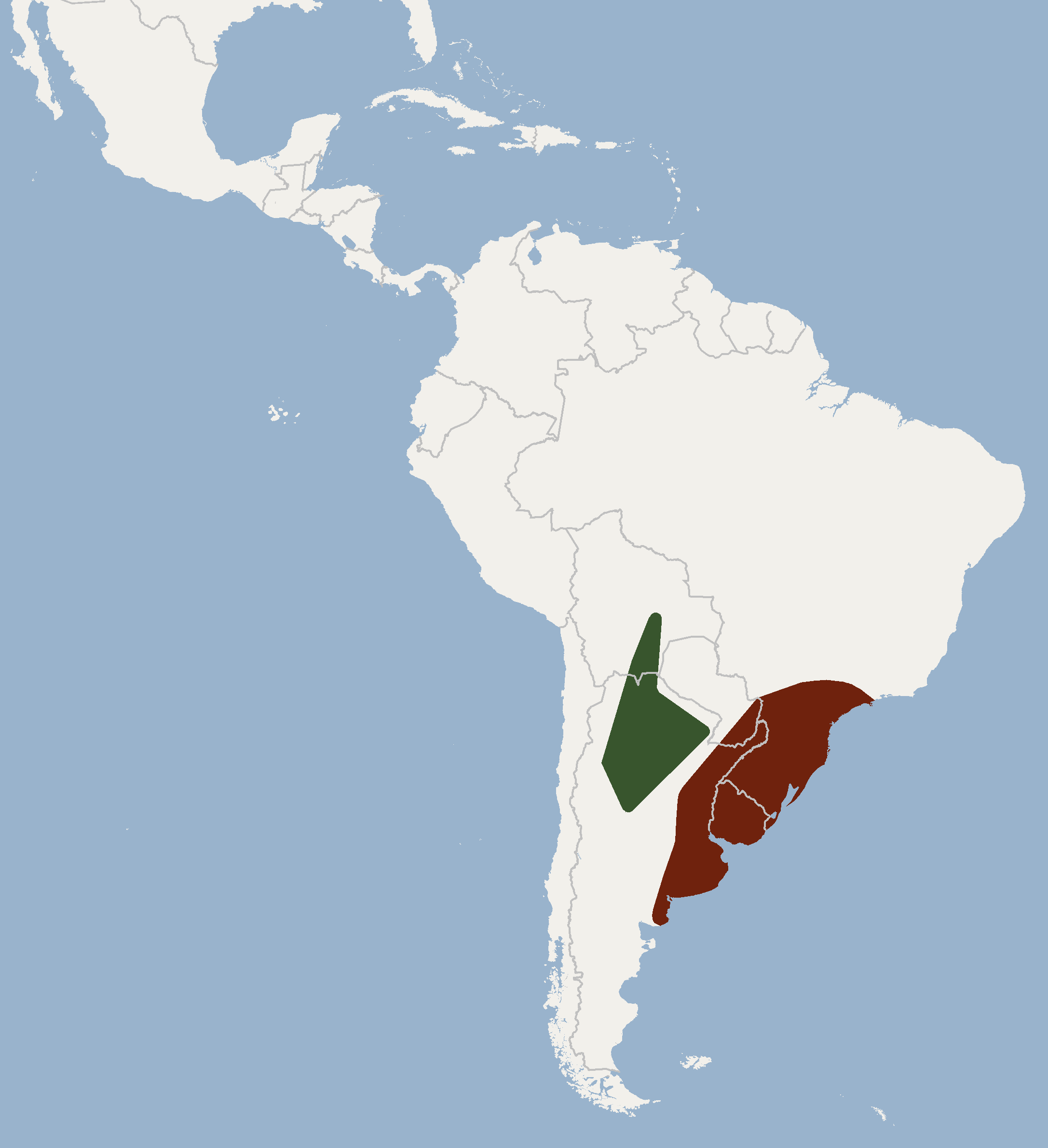 According to Gardner, 2008 and Stevens & Al., 2010